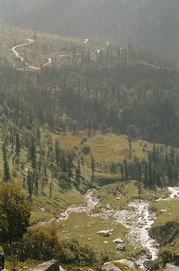 Kullu valley between Manali and Rohtang Pass